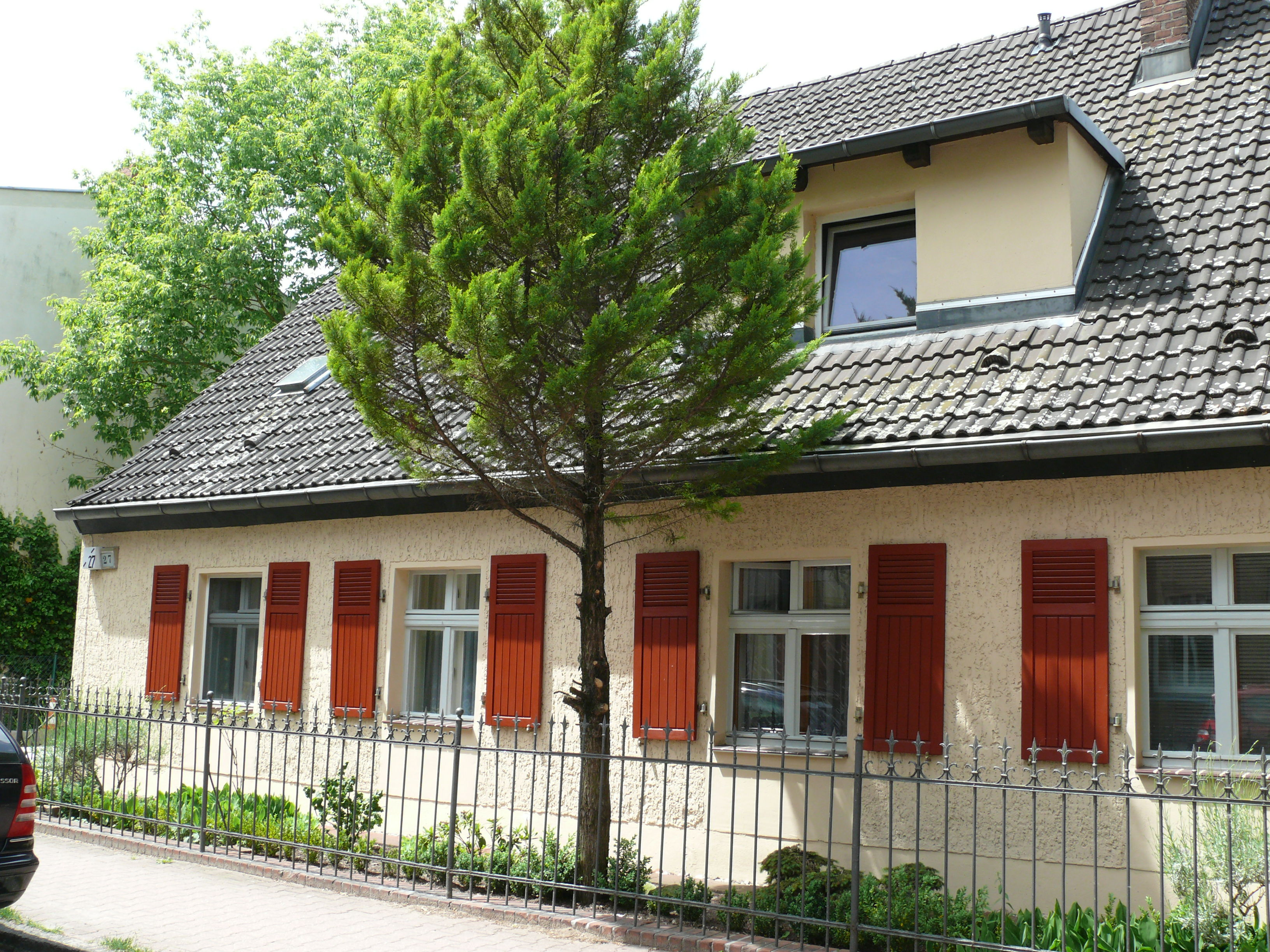 Berlin-Wilhelmstadt Dorfstraße 27